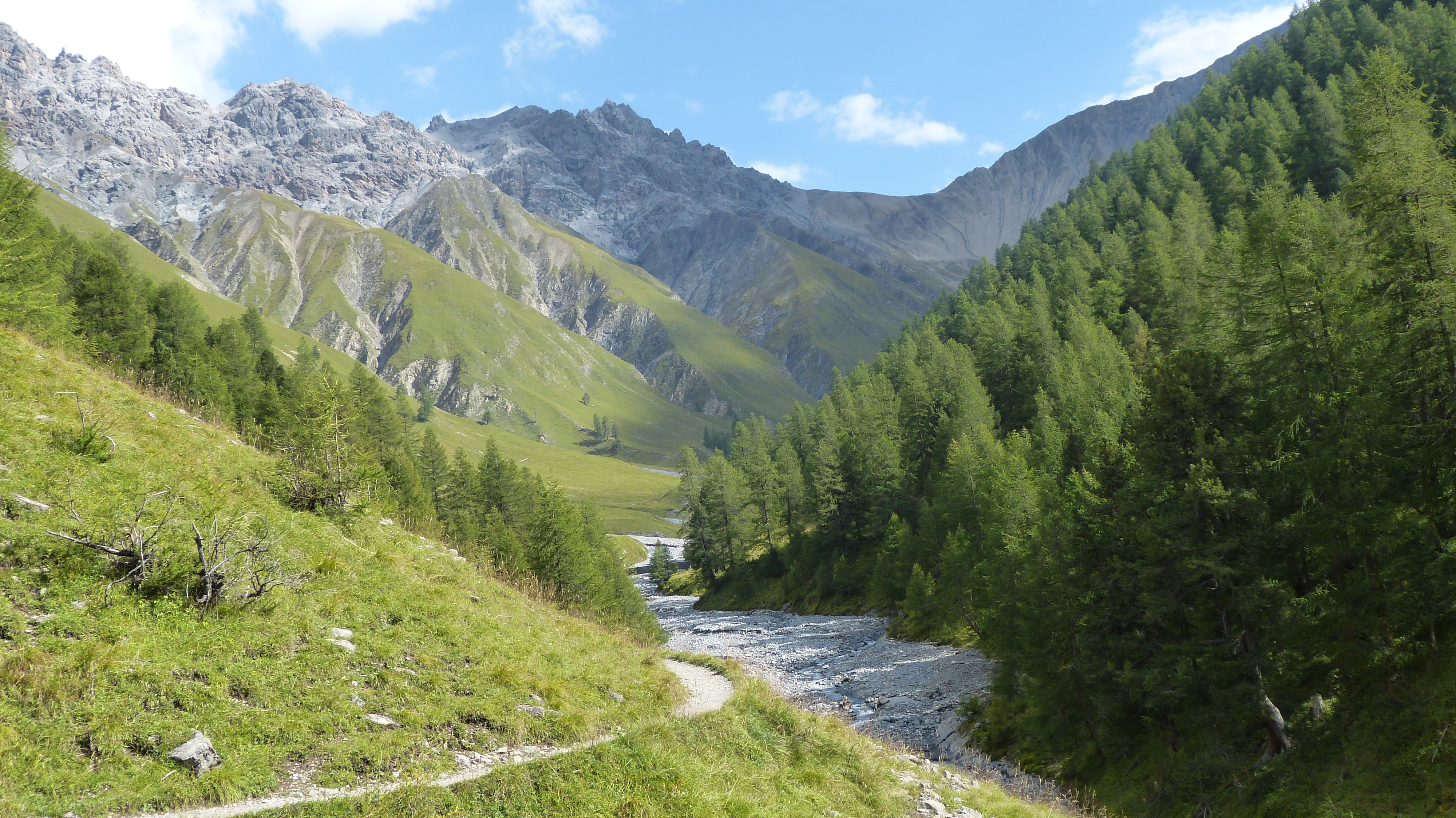 Parc Naziunal Svizzer